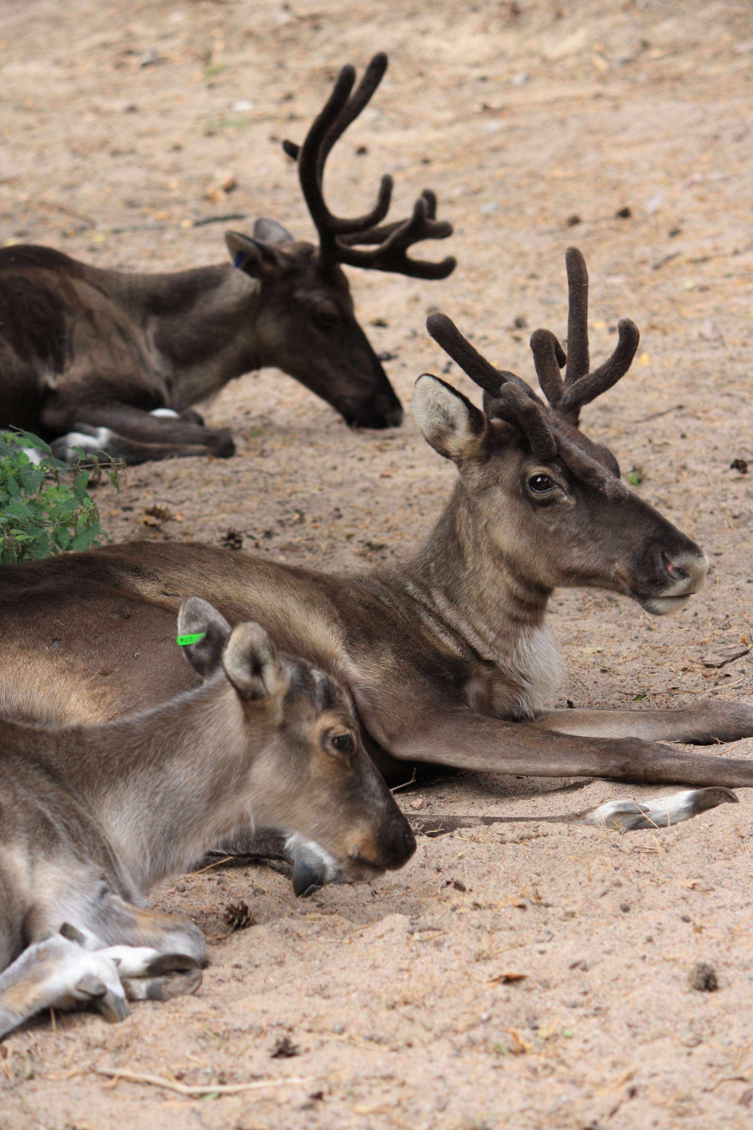 Finnish forest reindeer at the Helsinki Zoo.